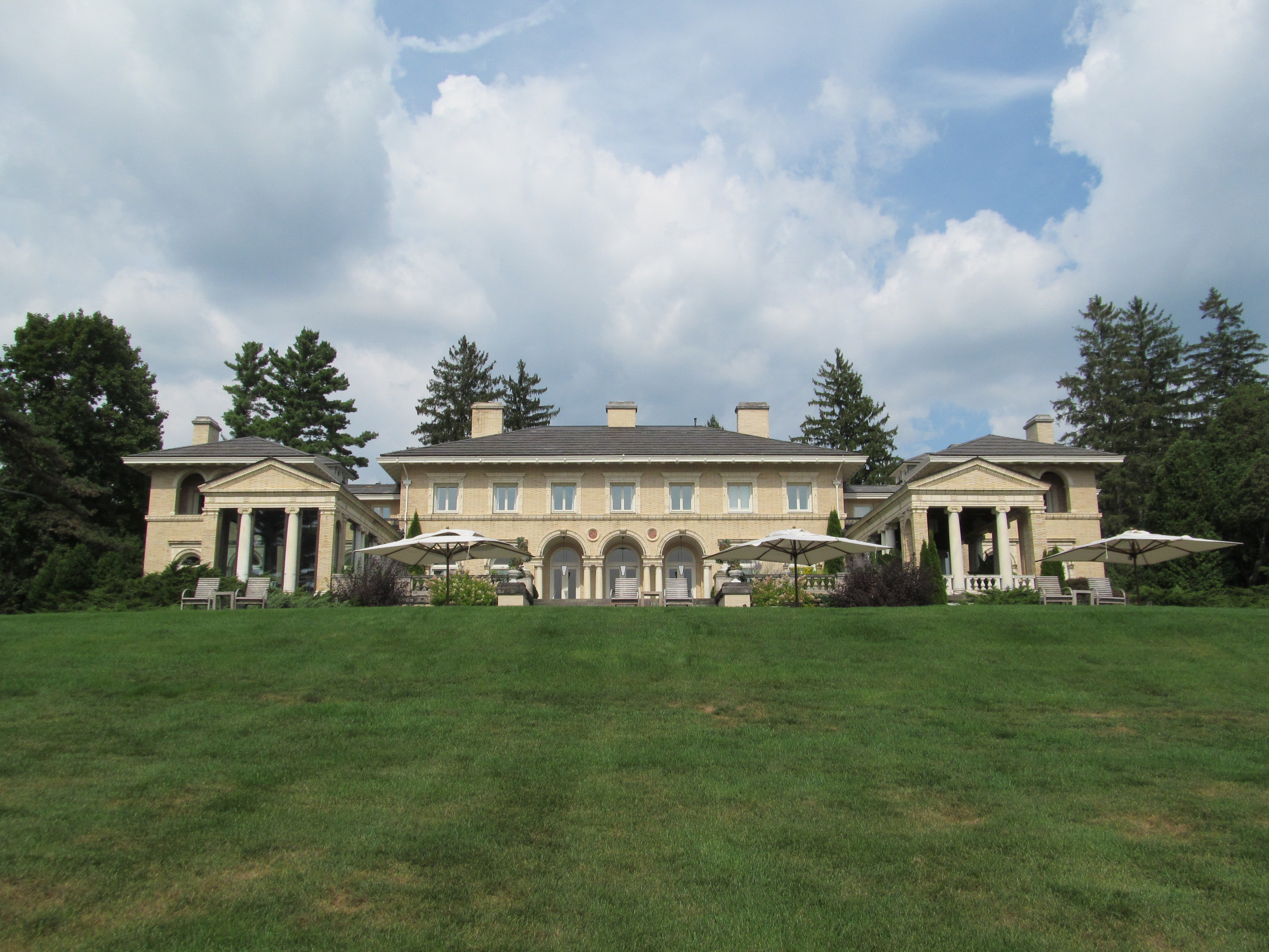 Wheatleigh, Lenox Massachusetts